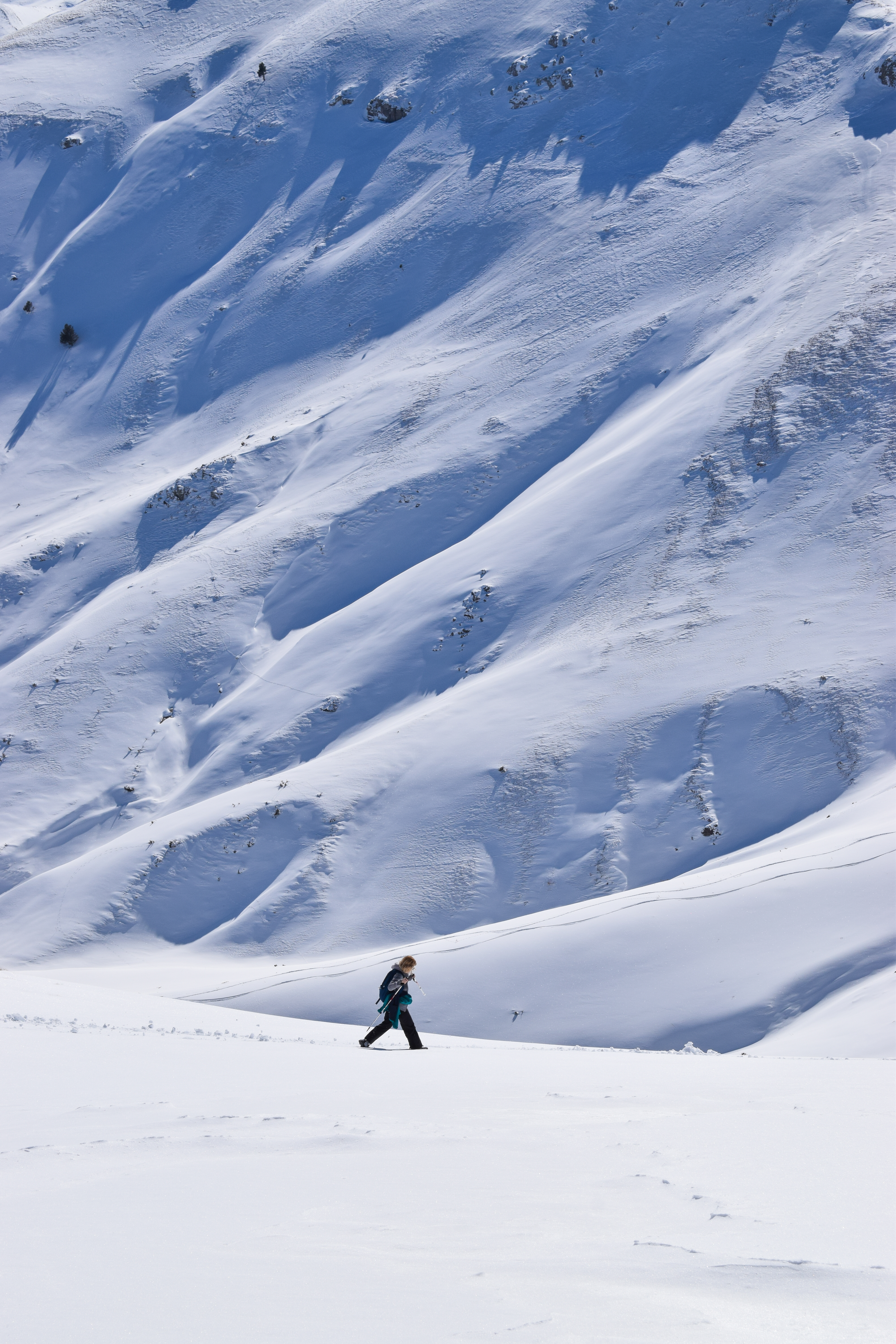 Hiker in Jablanica mountain in winter 2020